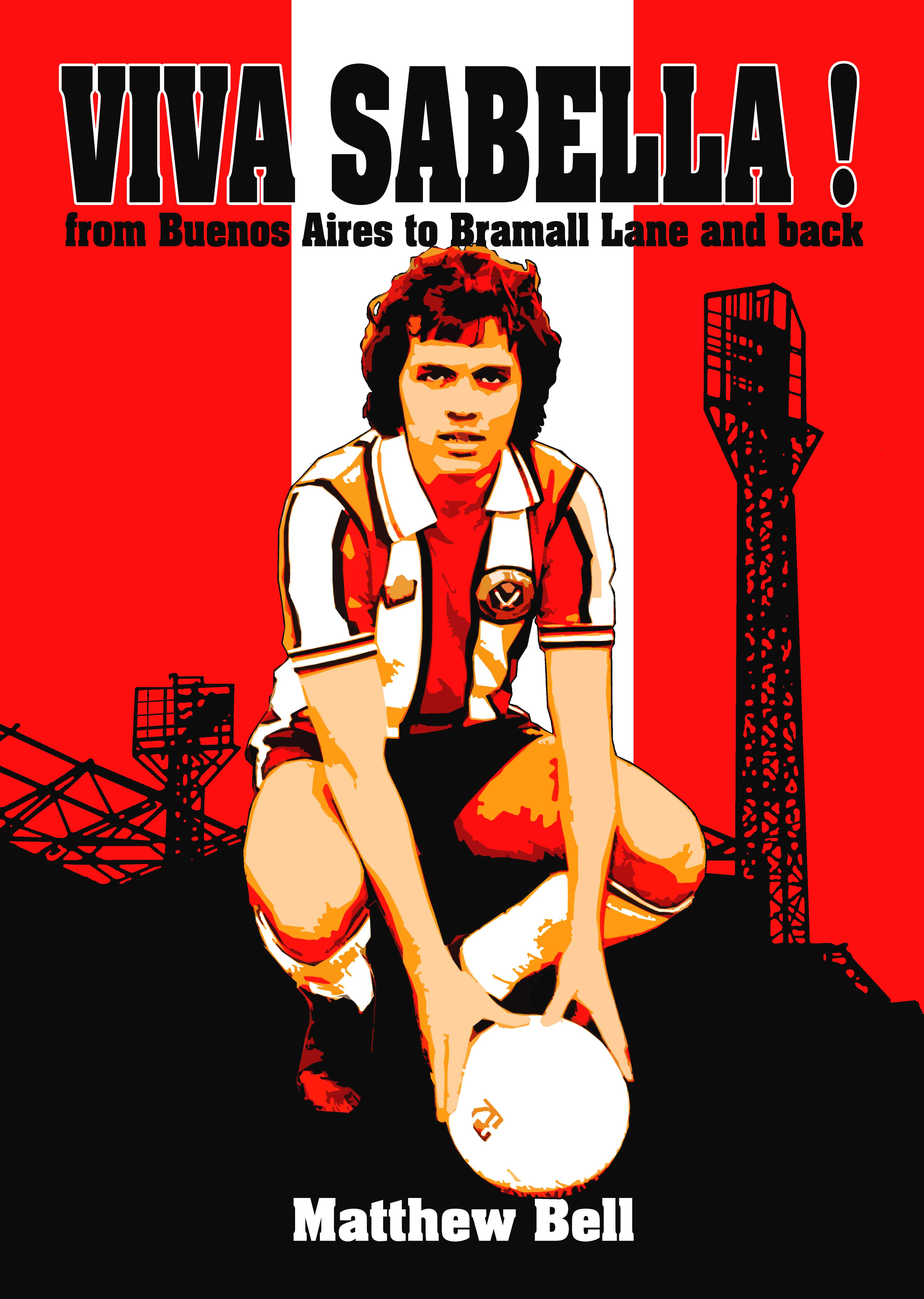 Cover of Viva Sabella! by Matthew Bell